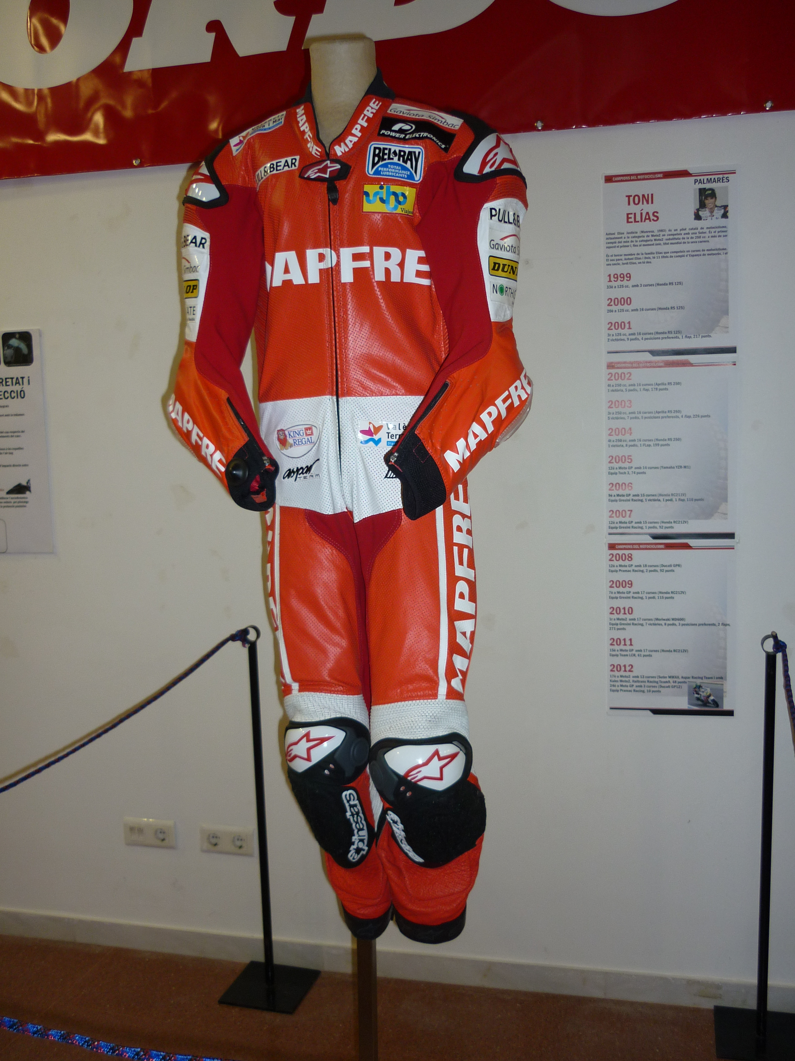 The equipment that wore Toni Elías during 2008 season